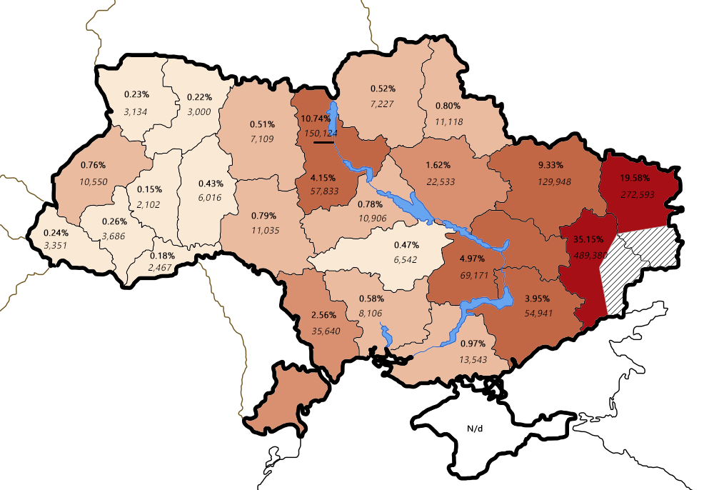 UNHCR disseminated data (with reference to the Ministry of Social Policy) on the number and geography of IDP registration as of July 15, 2019. A total of 1392085 persons